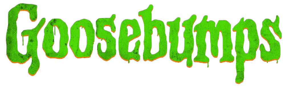 Goosebumps 2015 logo